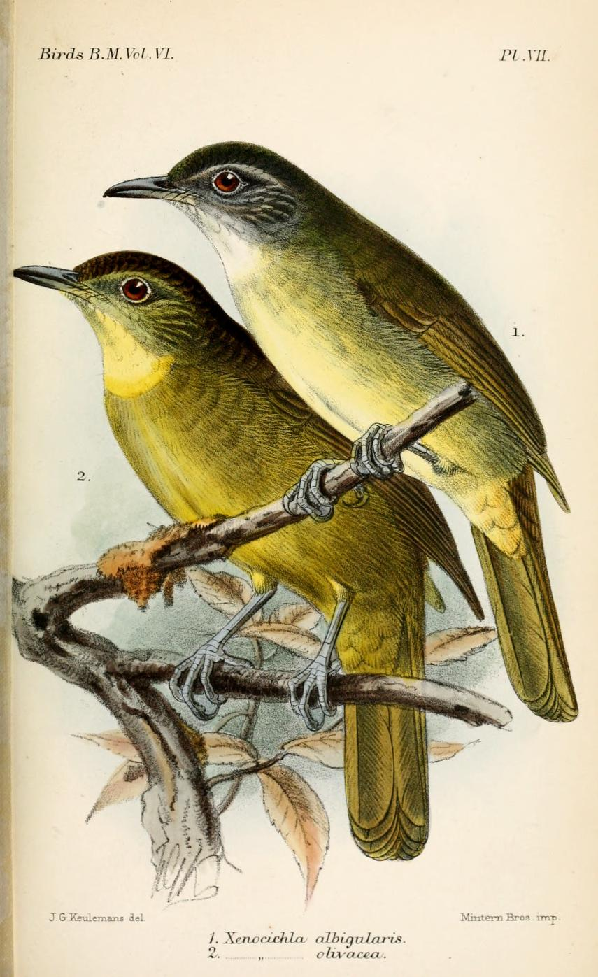 Xenocichla albigularis = Phyllastrephus albigularis, White-throated Greenbul (above); and Xenocichla olivacea = Criniger olivaceus, Yellow-throated Olive Greenbul (below)